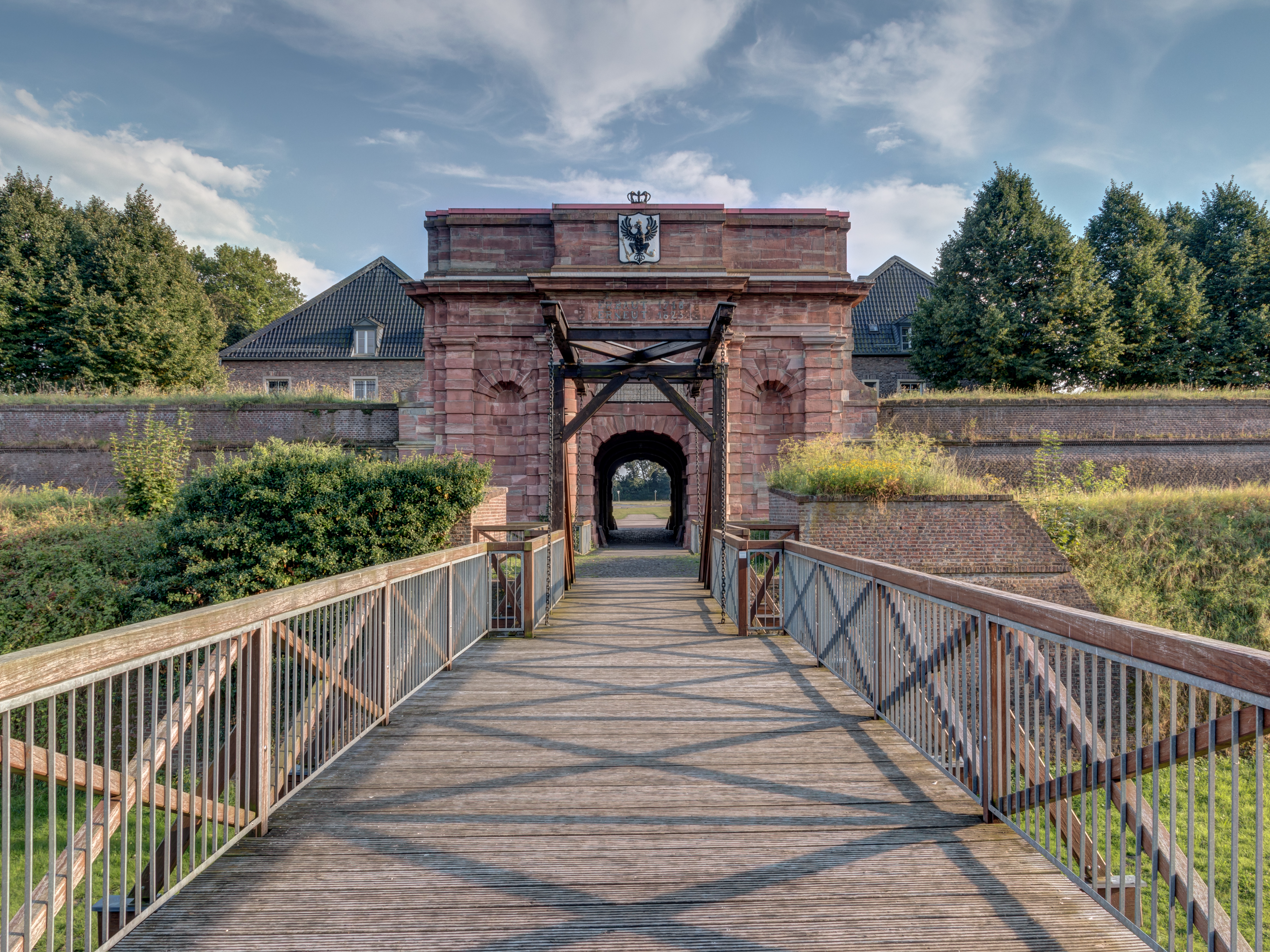 Citadel in Wesel, North Rhine-Westphalia, Germany This image shows a heritage building in Germany, located in the North Rhine-Westphalian city Wesel (no. 4).